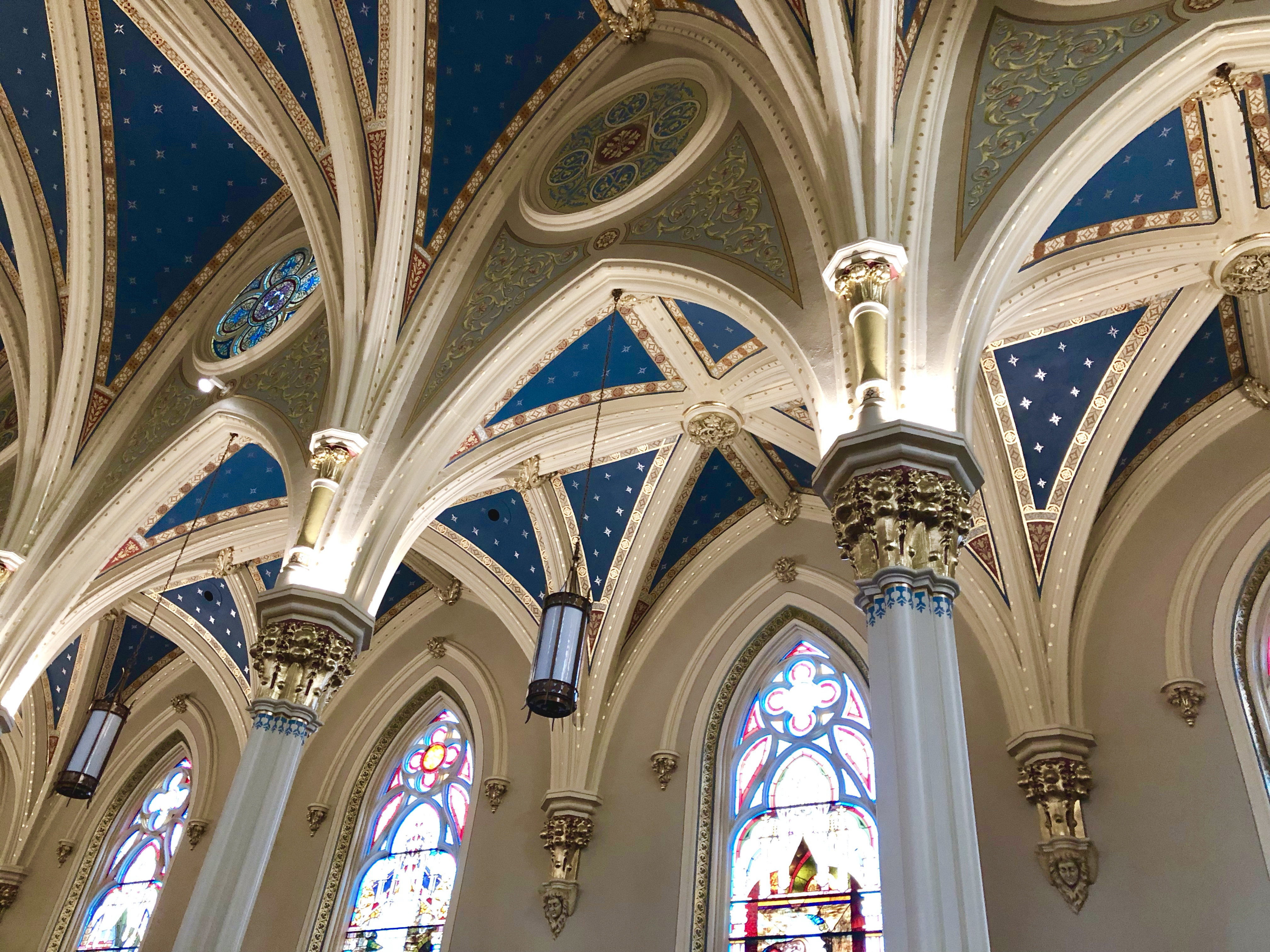 Ceiling detail in St. Augustine's Church in Austin, MN (Post-renovation, 2019)